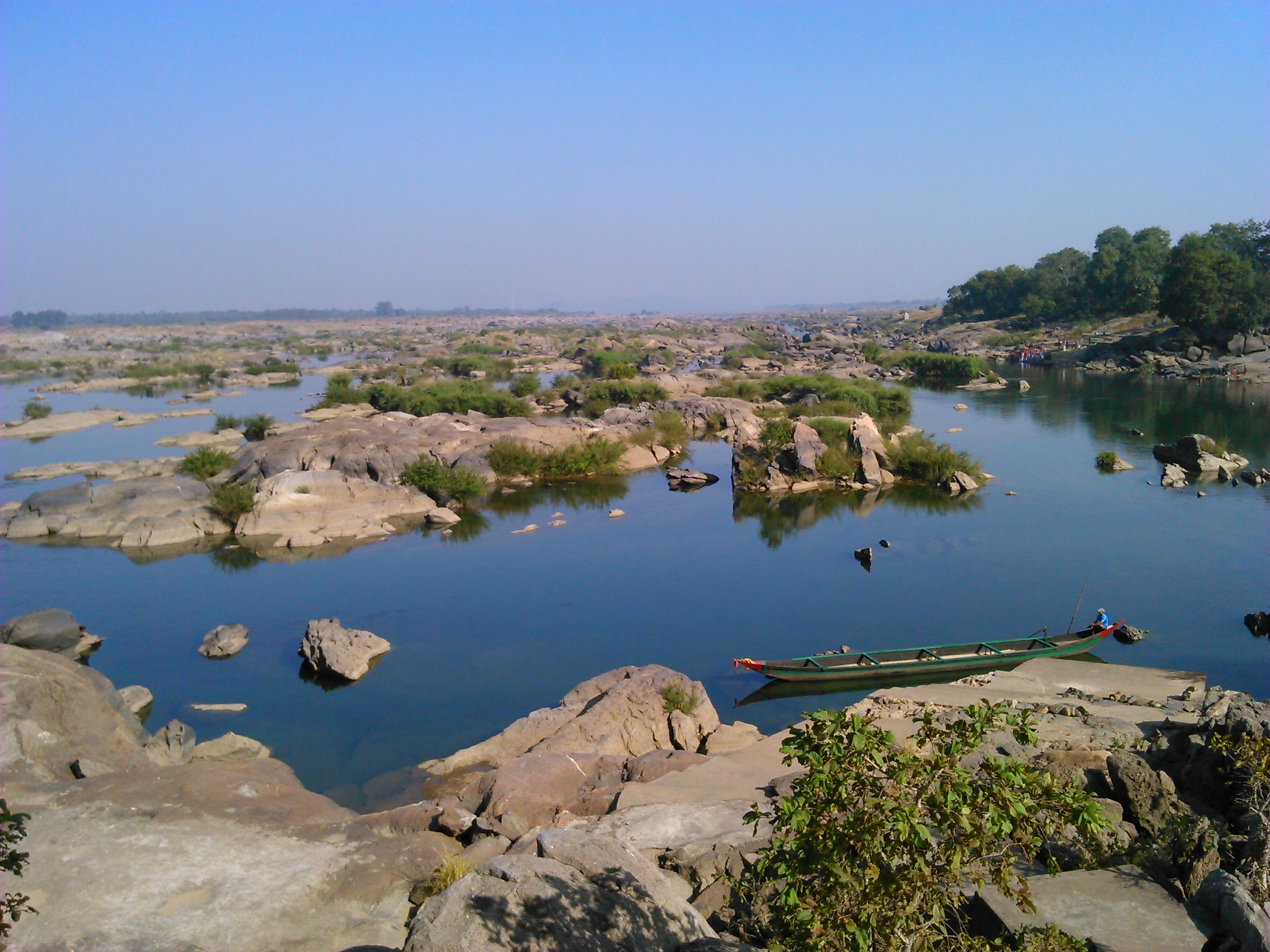 Huma is a tourist place in western Odisha. The photo is taken From the Vairabi Debi temple situated nearby. In the image, we can see the Mahanadi river.